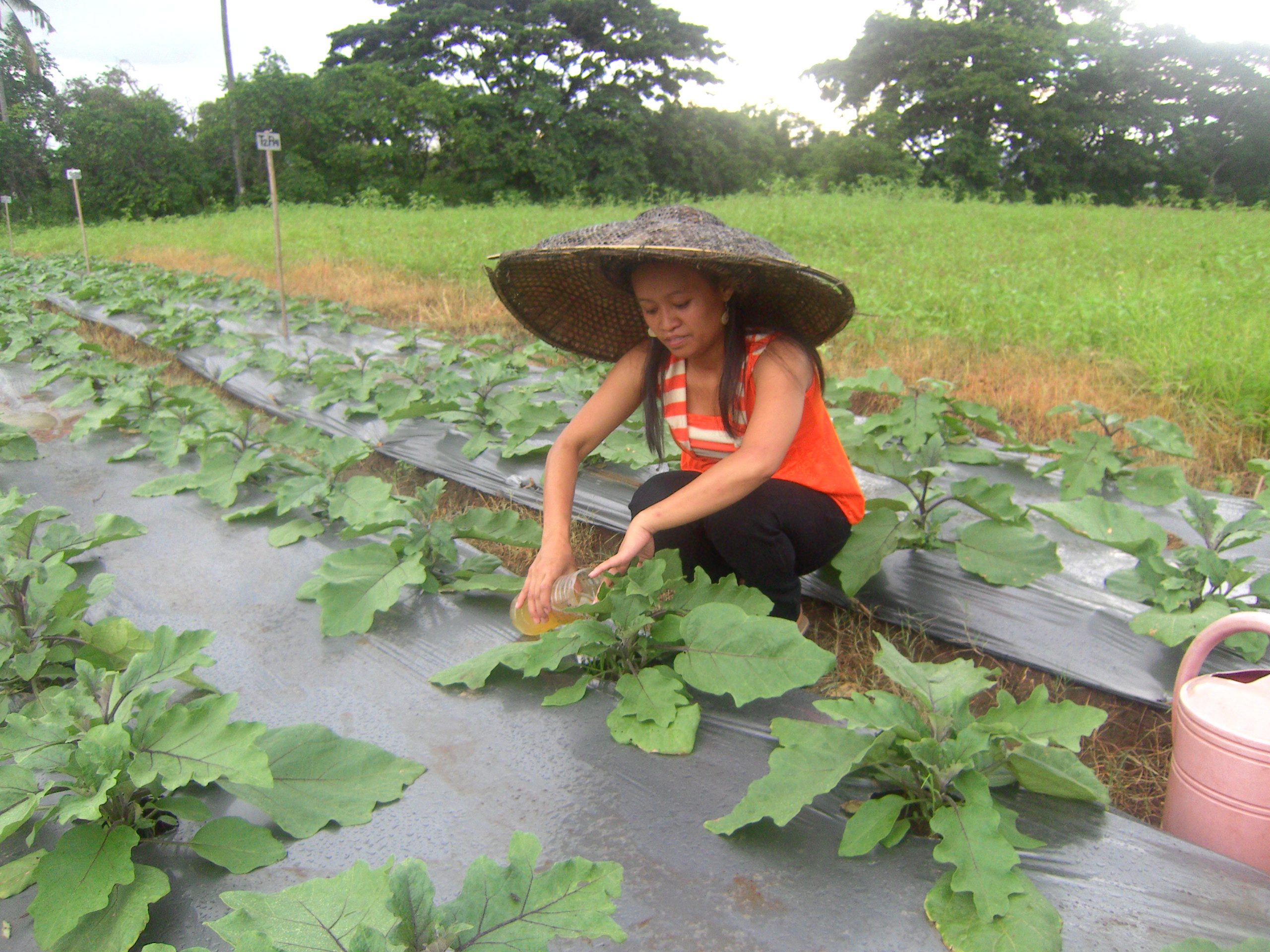 WG 5: Productive sanitation and the link to food security